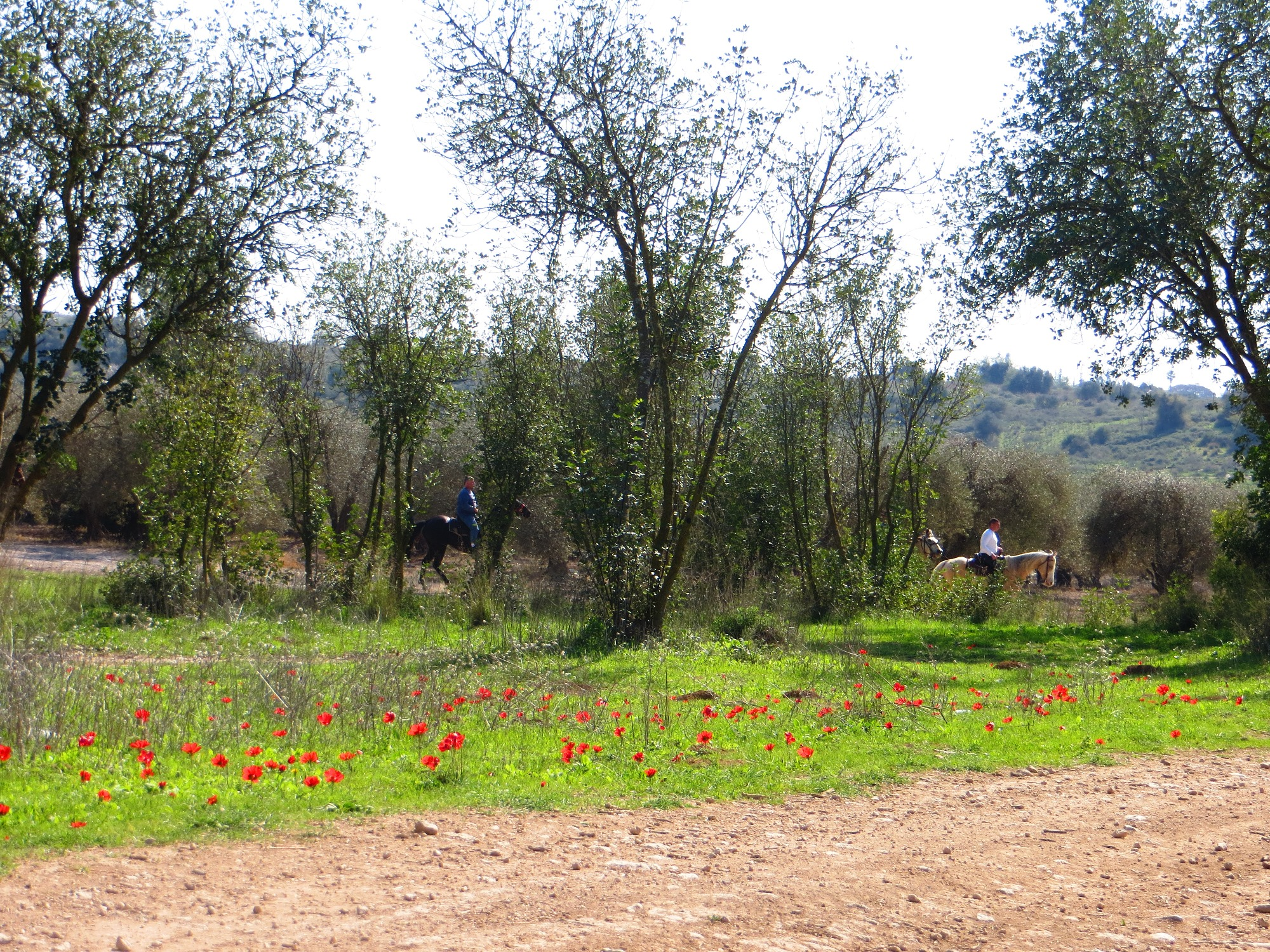 Geography of Israel